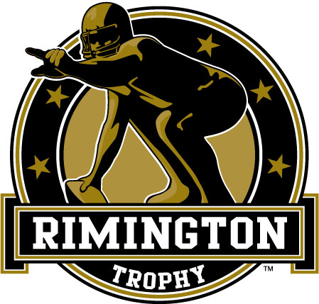 Rimington Trophy logo